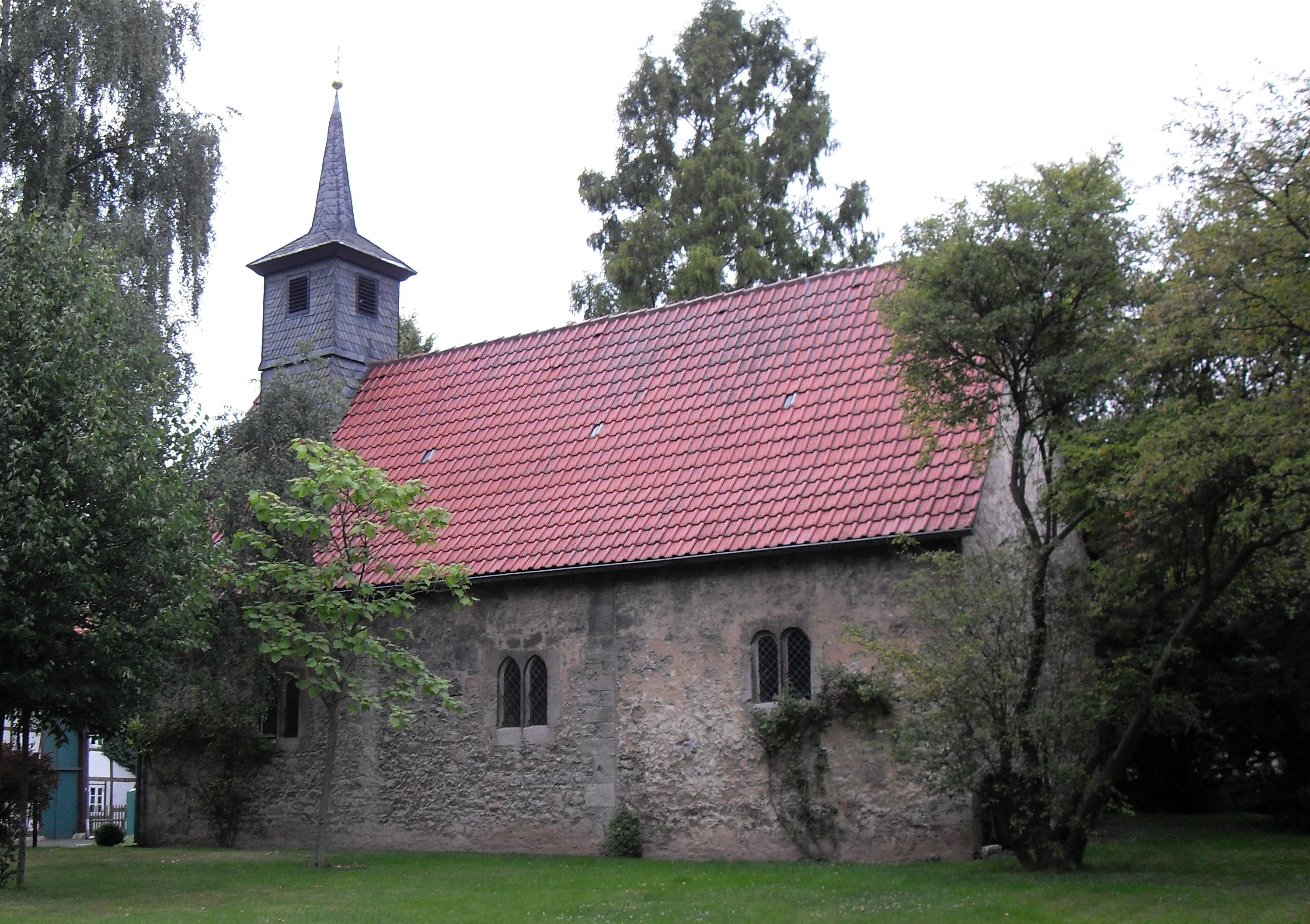 protestant church in Schulenrode, Lower Saxony, Germany